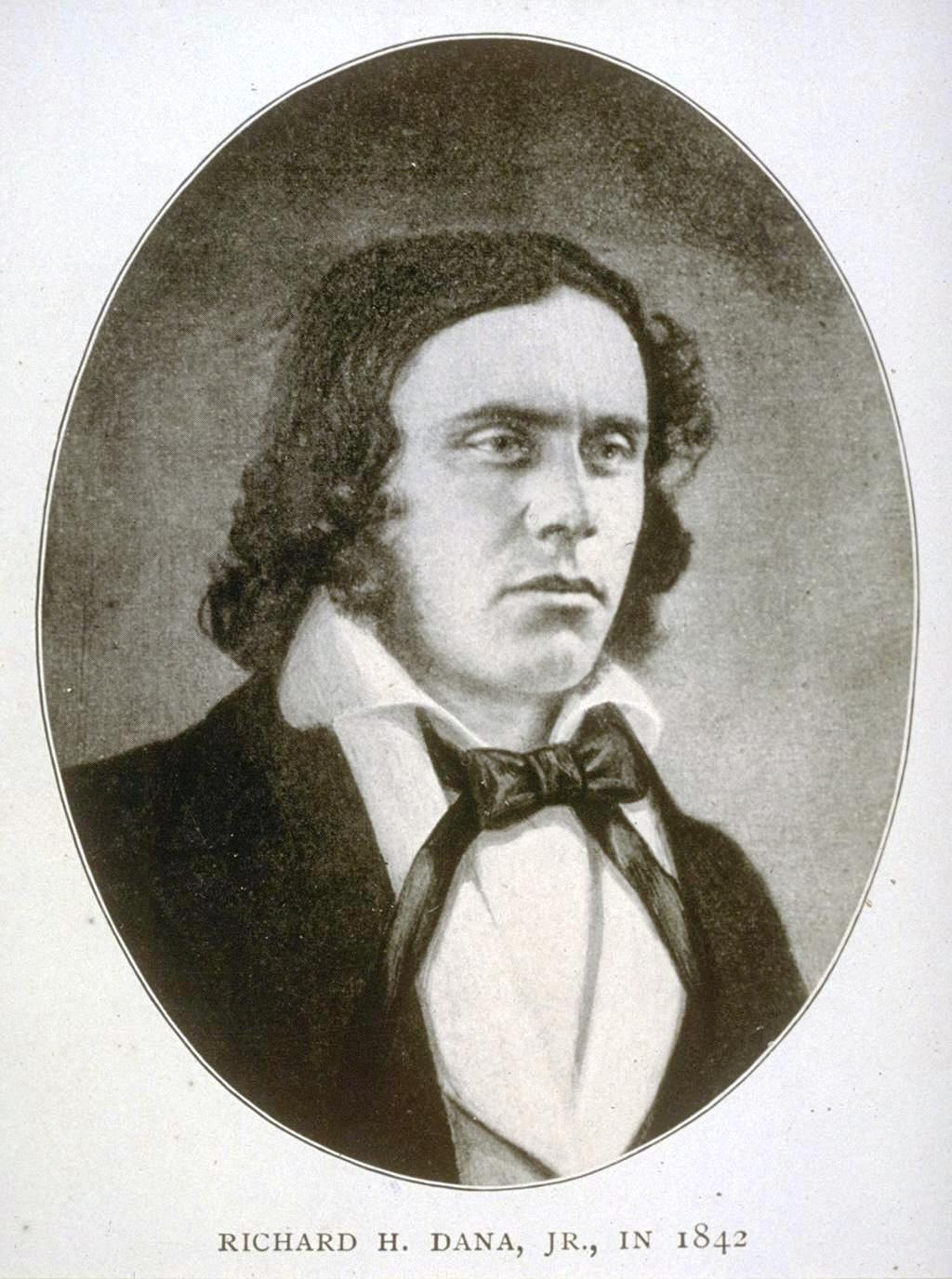 Richard Henry Dana, Jr. (1815-1882), American lawyer, politician, and namesake of Dana Point, California.